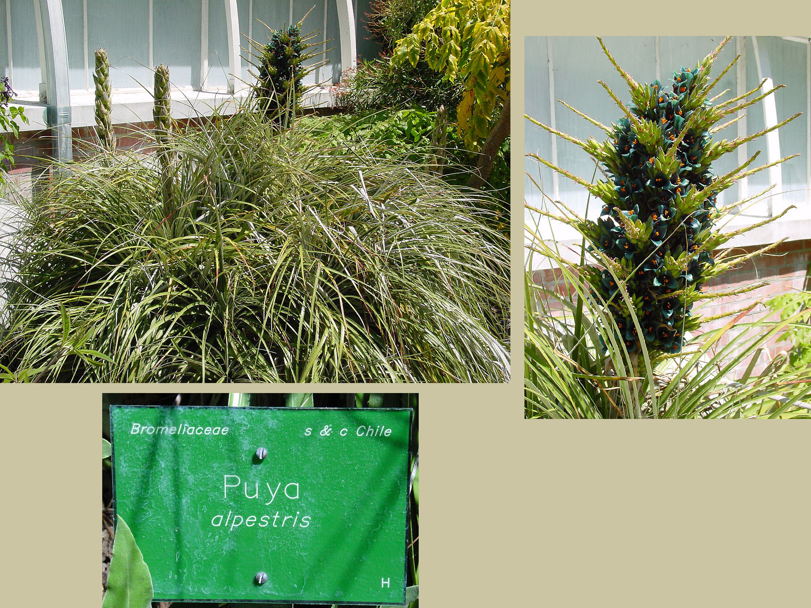 Puya alpestris in the botanic garden in Christchurch, New Zealand.